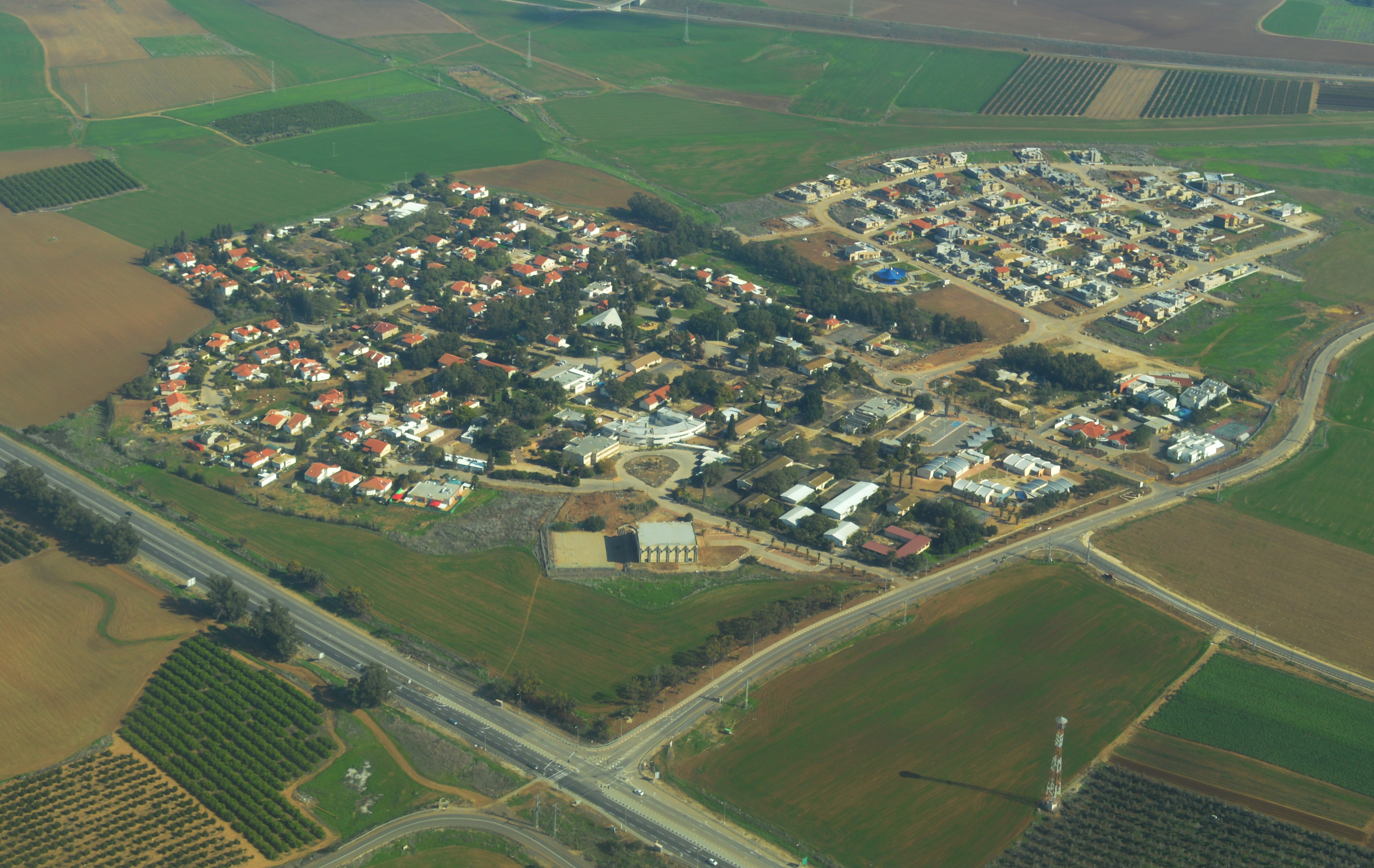 Even Shmuel Aerial View